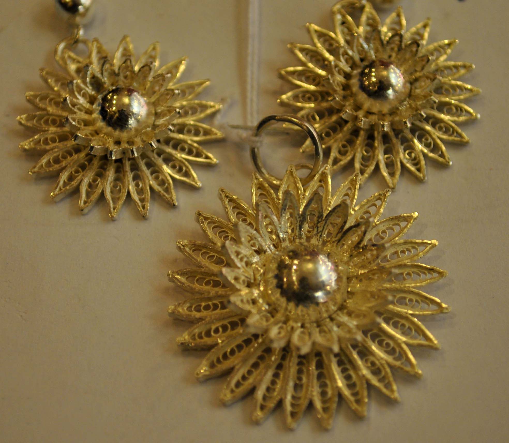 Cuttack Tarkasi (silver filigree) pendant & ear rings, a traditional craft of Odisha, India